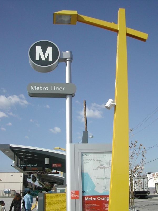 North Hollywood (LACMTA station)